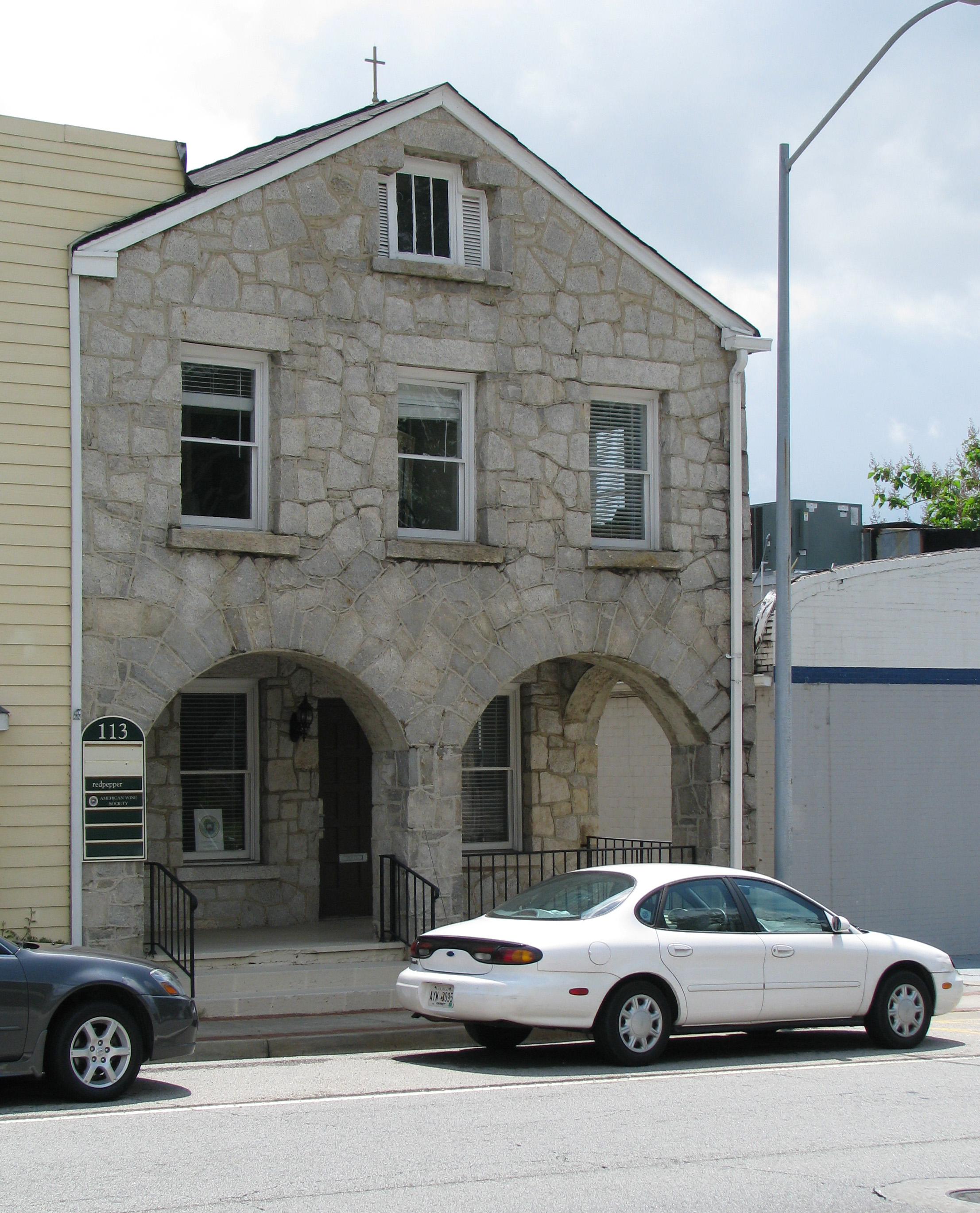 113 Perry Street, Lawrenceville Georgia The shot that paralyzed Larry Flynt came from the door behind the center pillar of this building. Flynt was in Lawrenceville to stand trial on obscenity charges at the nearby Gwinnett County Courthouse. Joseph Paul Franklin has confessed to this crime.